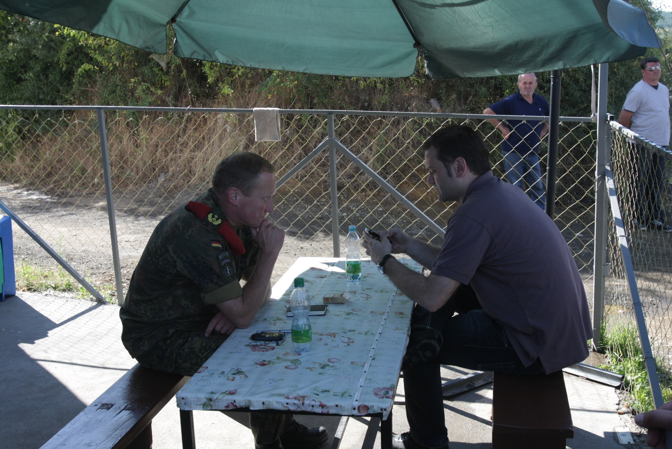 General Bühler bei einem Treffen mit dem serbischen Unterhändler Borislav Stefanovic, Sommer 2011